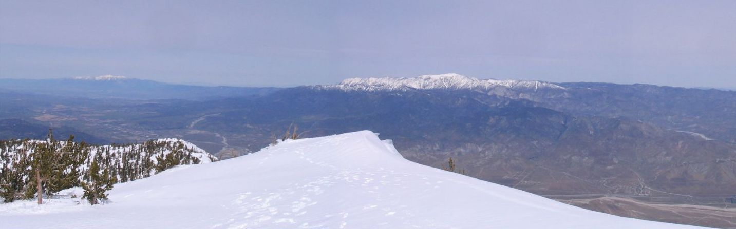 Mount San Gorgonio (Old Grayback), seen from Mount San Jacinto. Mount San Antonio (Mount Baldy) is west of Gorgonio in the distance. I am the photographer and I donate this image into the public domain.